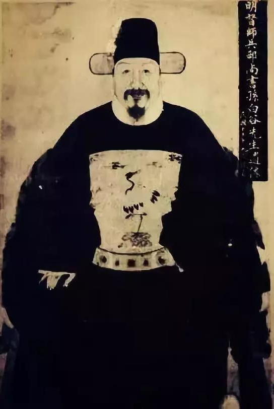 Sun Chuanting (Chinese: 孫傳庭; pinyin: Sūn Chuántíng; 1 January 1593 – 3 November 1643), courtesy name Boya, was born in Shanxi; he was the late Ming Dynasty's Defence minister (Bingbu Shangshu), and field Marshal (Dushi). He led 100,000 Ming troops against Li Zicheng's 700,000 troops. He was defeated and killed by Li in the Battle of Tongguan (1643).